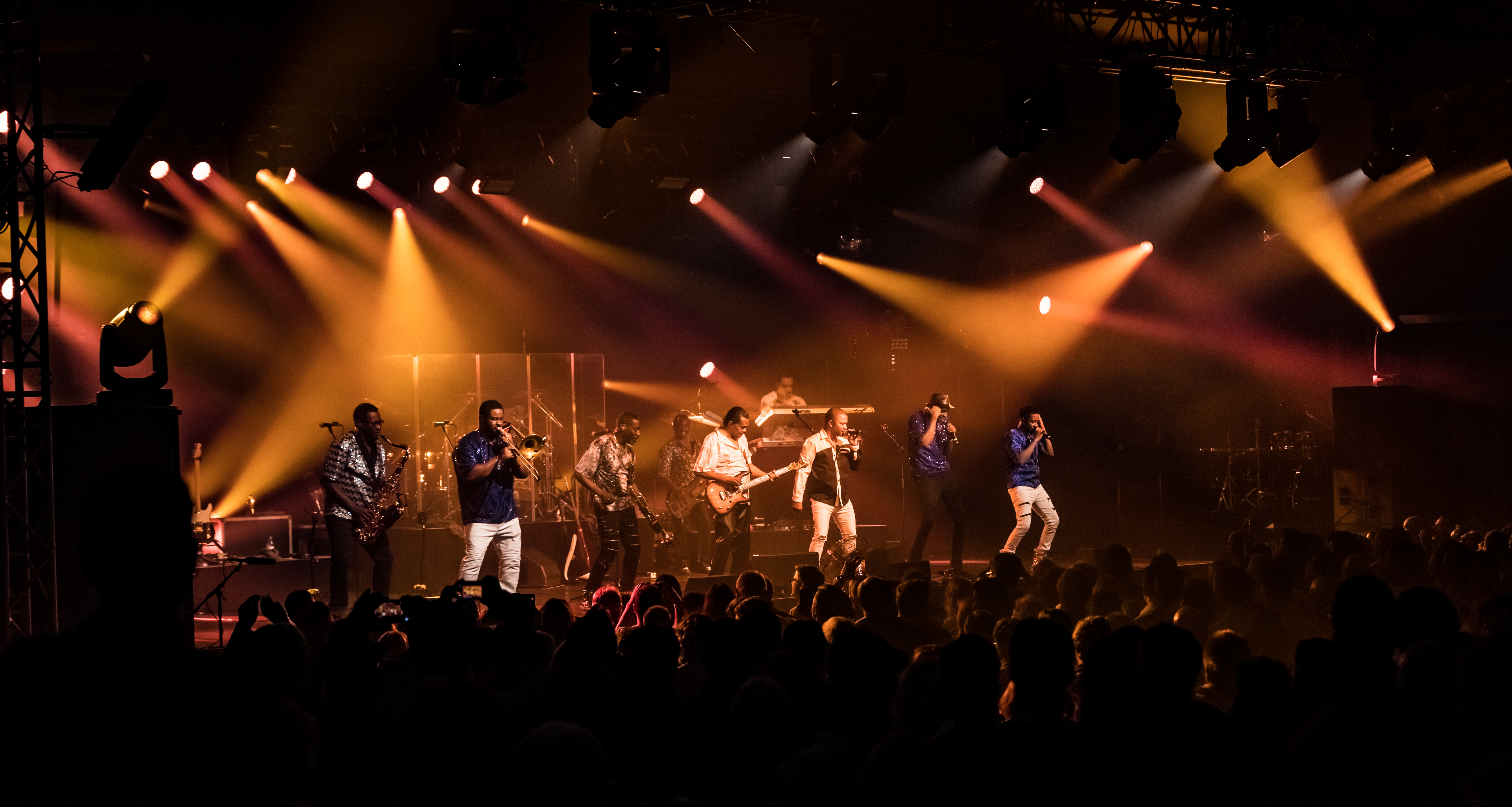 Kool & the Gang - Leverkusener Jazztage 2017